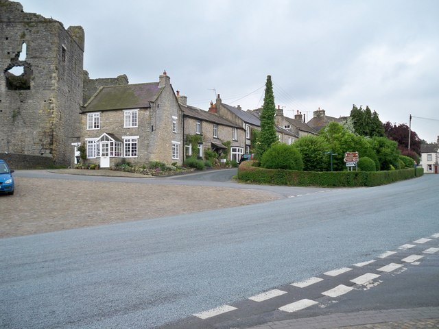 Middleham Top Square with the castle